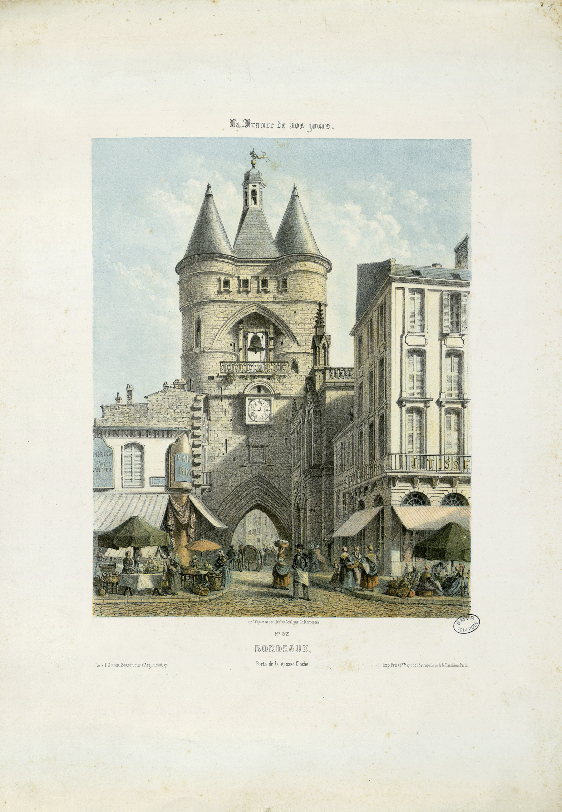 Porte de la Grosse Cloche (=Big bell gate) in Bordeaux (Gironde, France). Engraving circa 1860.